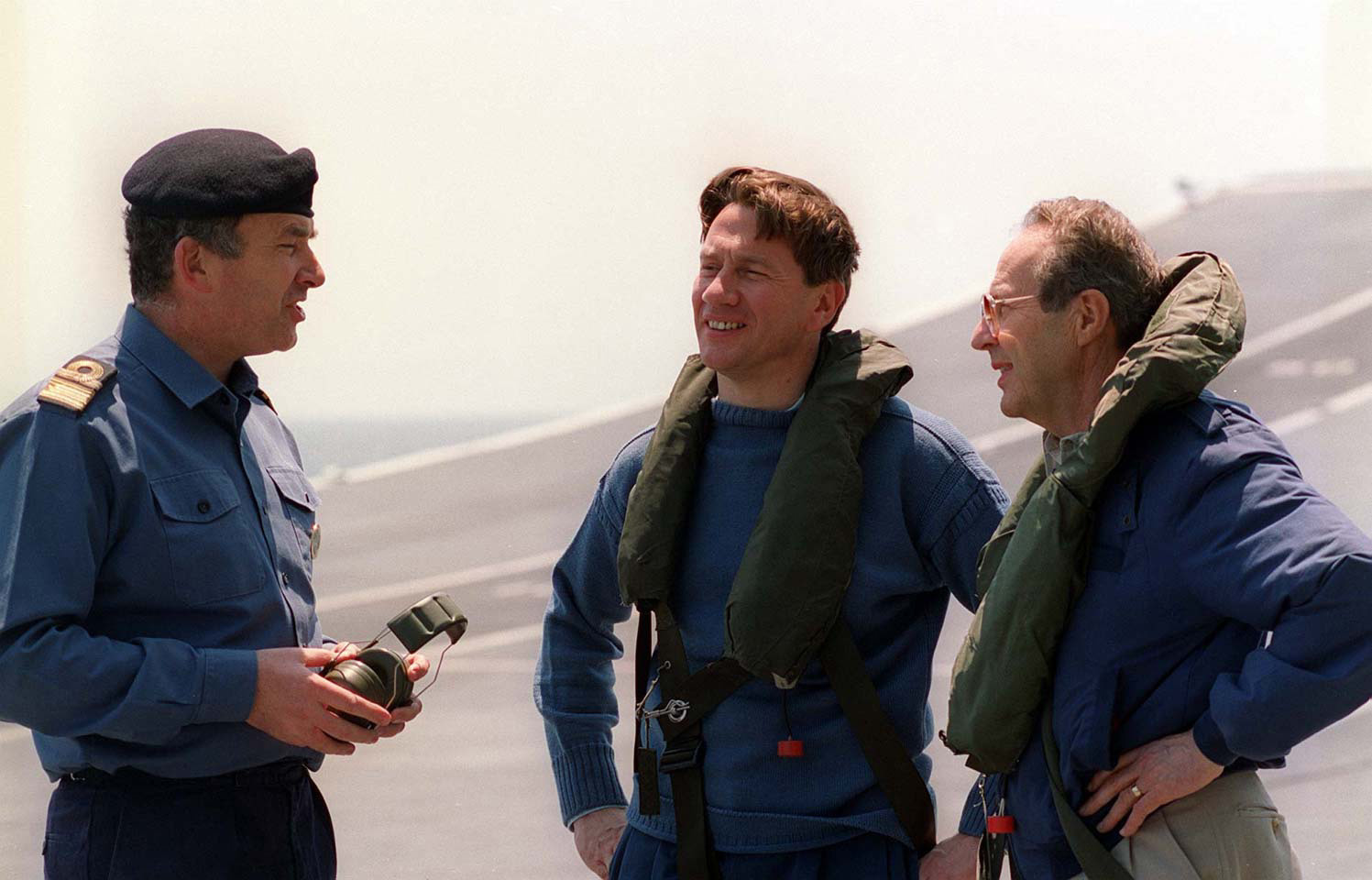 From left to right aboard the H.M.S. ILLUSTRIOUS off the coast of North Carolina, Admiral Sir Peter Abbot, KCB, Commander in CHIEF Fleet, talks with The Right Honorable Michael Portillo MP, United Kingdom Secretary of State For Defense, and The Honorable William J. Perry, United States Secretary of Defense